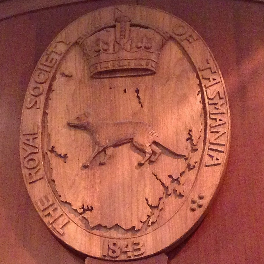 The Royal Society of Tasmania's coat of arms in wood, on the wall of the Society's room at the Tasmanian Museum and Art Gallery, Hobart